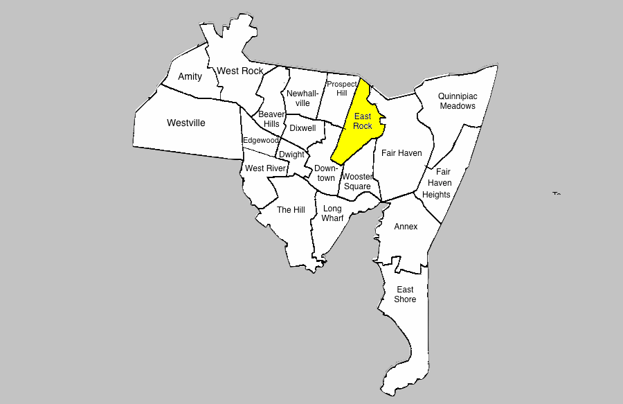 Location of East Rock neighborhood within New Haven, Connecticut